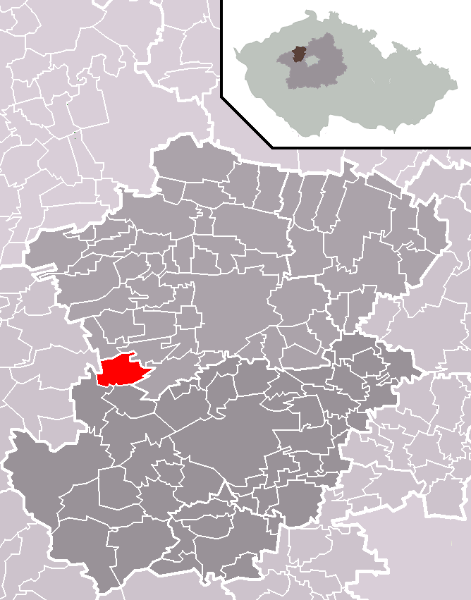 Location of Hradečno municipality within Kladno District and administrative area of Kladno as a Municipality with Extended Competence.